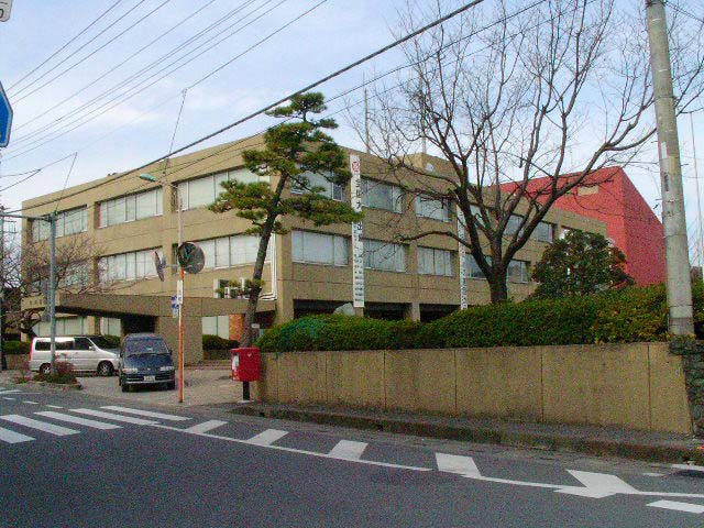 Ogawa Town Hall, Ogawa, Saitama, Japan